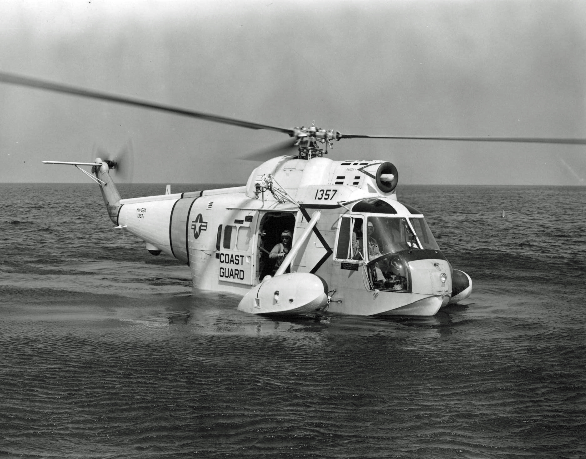 A U.S. Coast Guard Sikorsky HH-52A Seaguard helicopter (s/n 58-1357) demonstrates its ability to land on water on Lake Pontchartrain, Louisiana (USA), 23 September 1964.